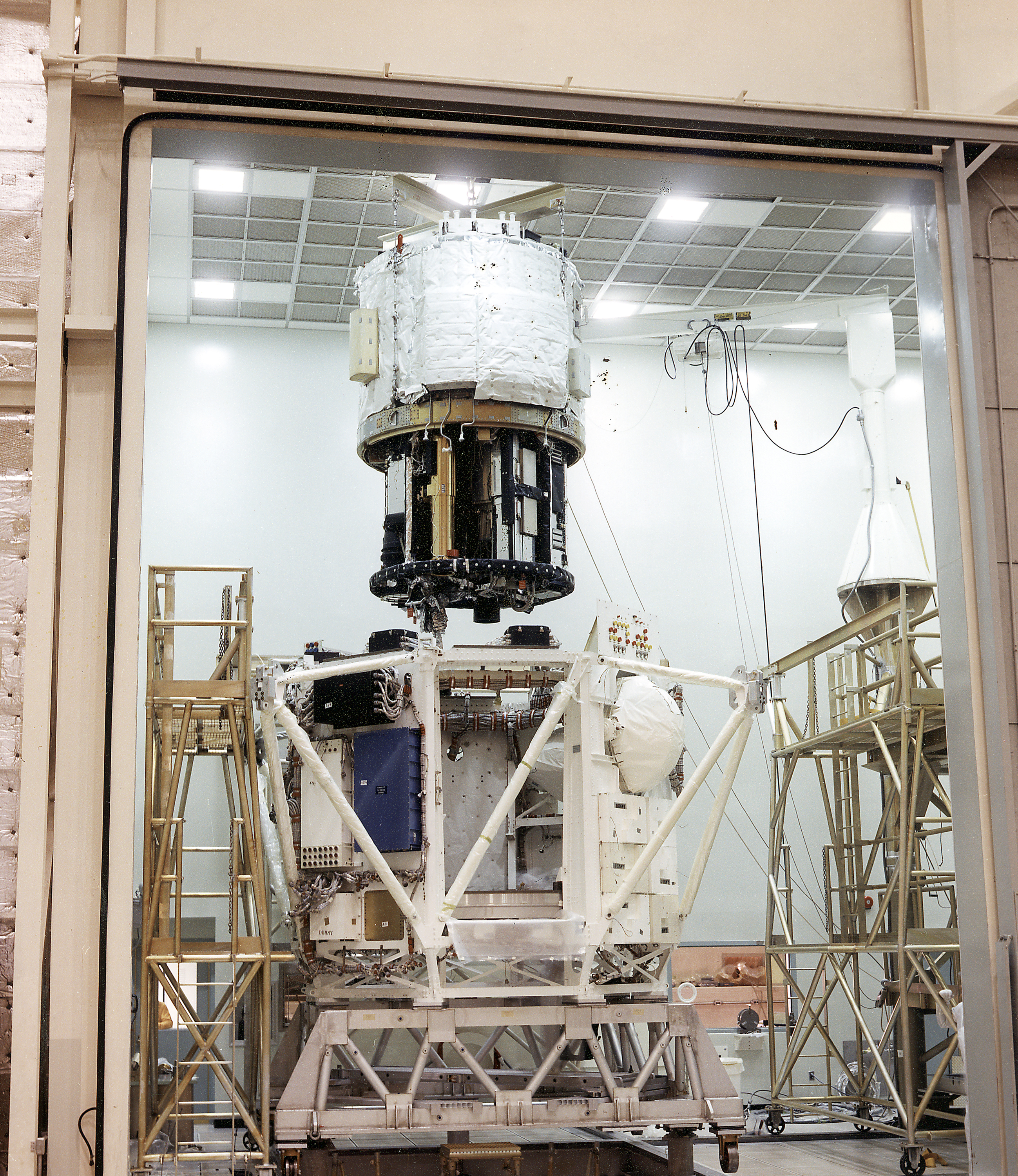 The Apollo Telescope Mount (ATM) was designed and developed by the Marshall Space Flight Center and served as the primary scientific instrument unit aboard Skylab (1973-1979). This photograph shows the spar unit, which housed major solar instruments, being lowered into the rack, the outer octagonal complex frame of the ATM flight unit.